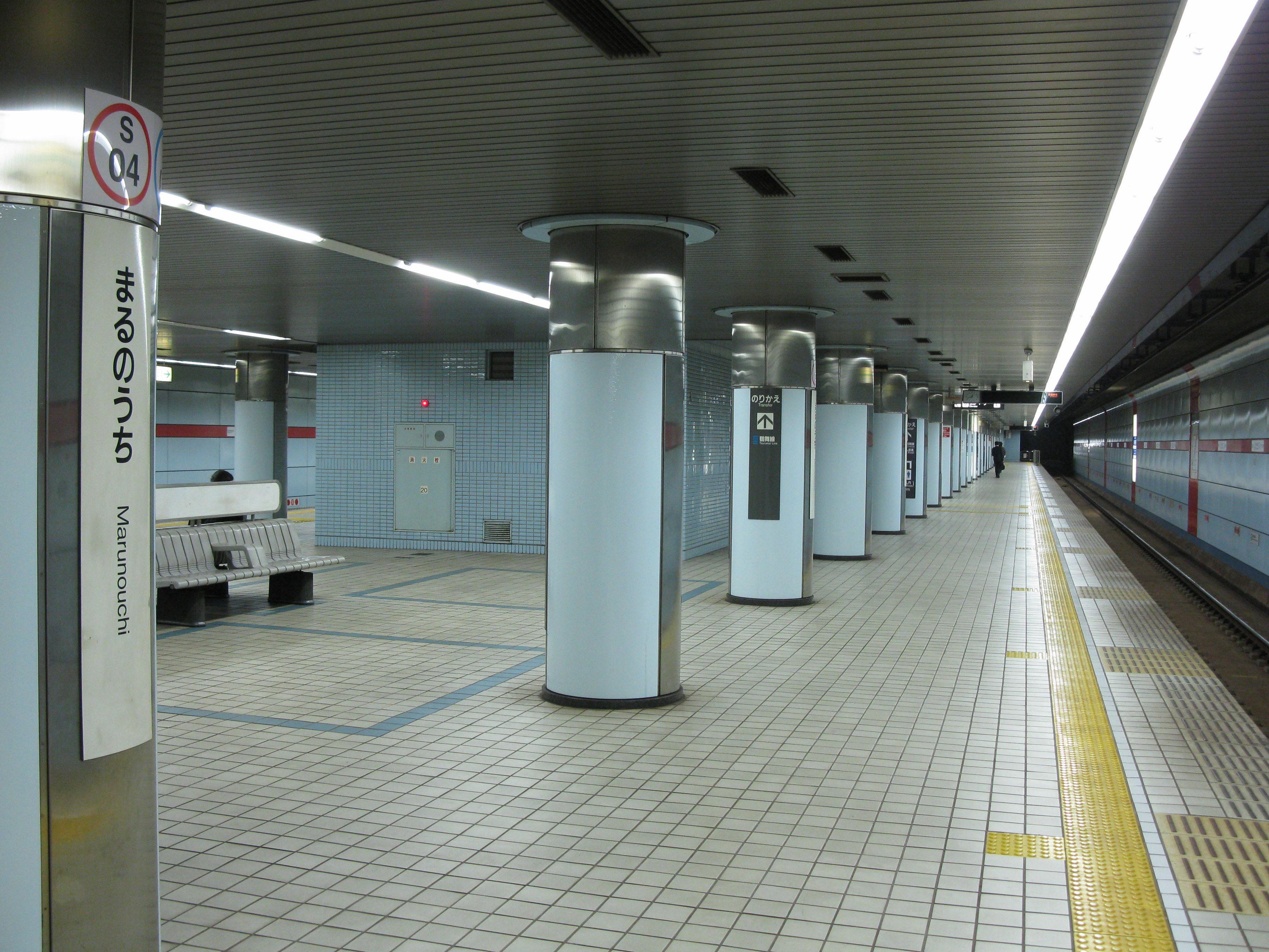 Marunouchi Station platform (Nagoya Municipal Subway Sakura-dōri Line)